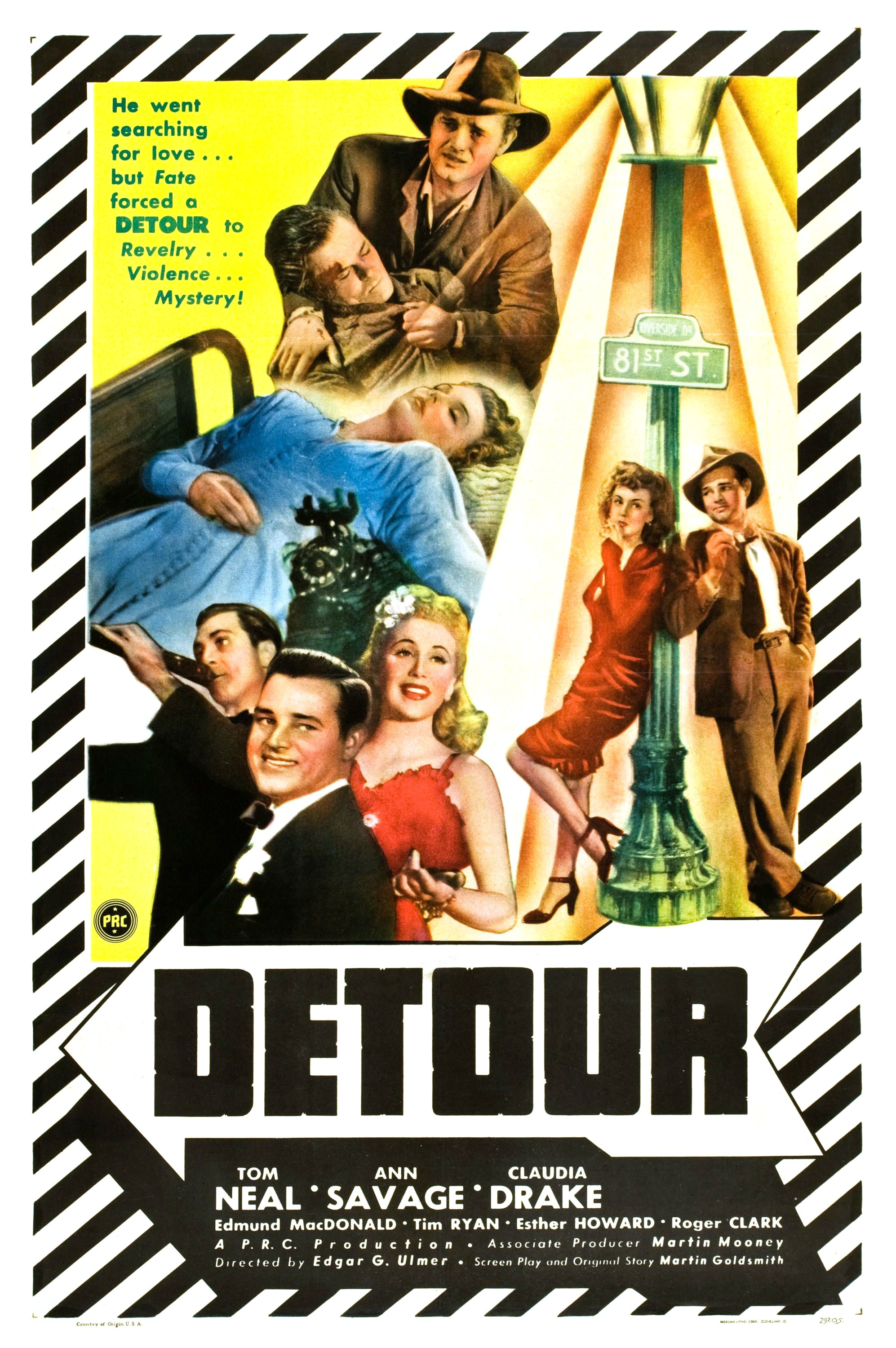 Poster for the 1945 film Detour. There are no copyright marks on the item. At bottom left is Country of origin USA; at bottom right is Morgan Litho Comp, Cleveland O and 29205.